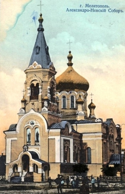 Old Alexander Nevsky Cathedral Melitopol